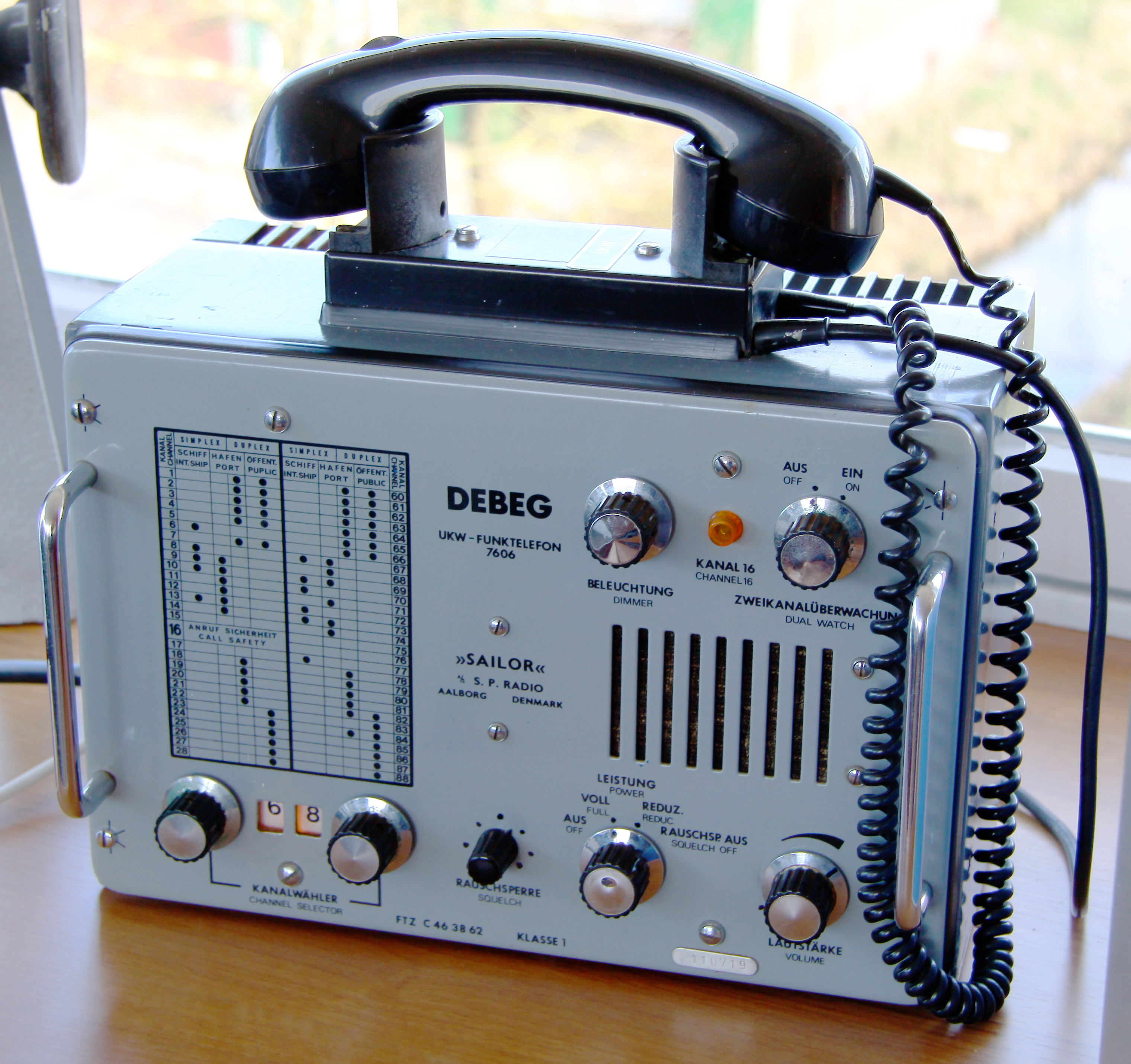 The Debeg 7606 VHF radio, the German version of the Sailor RT143.[1]